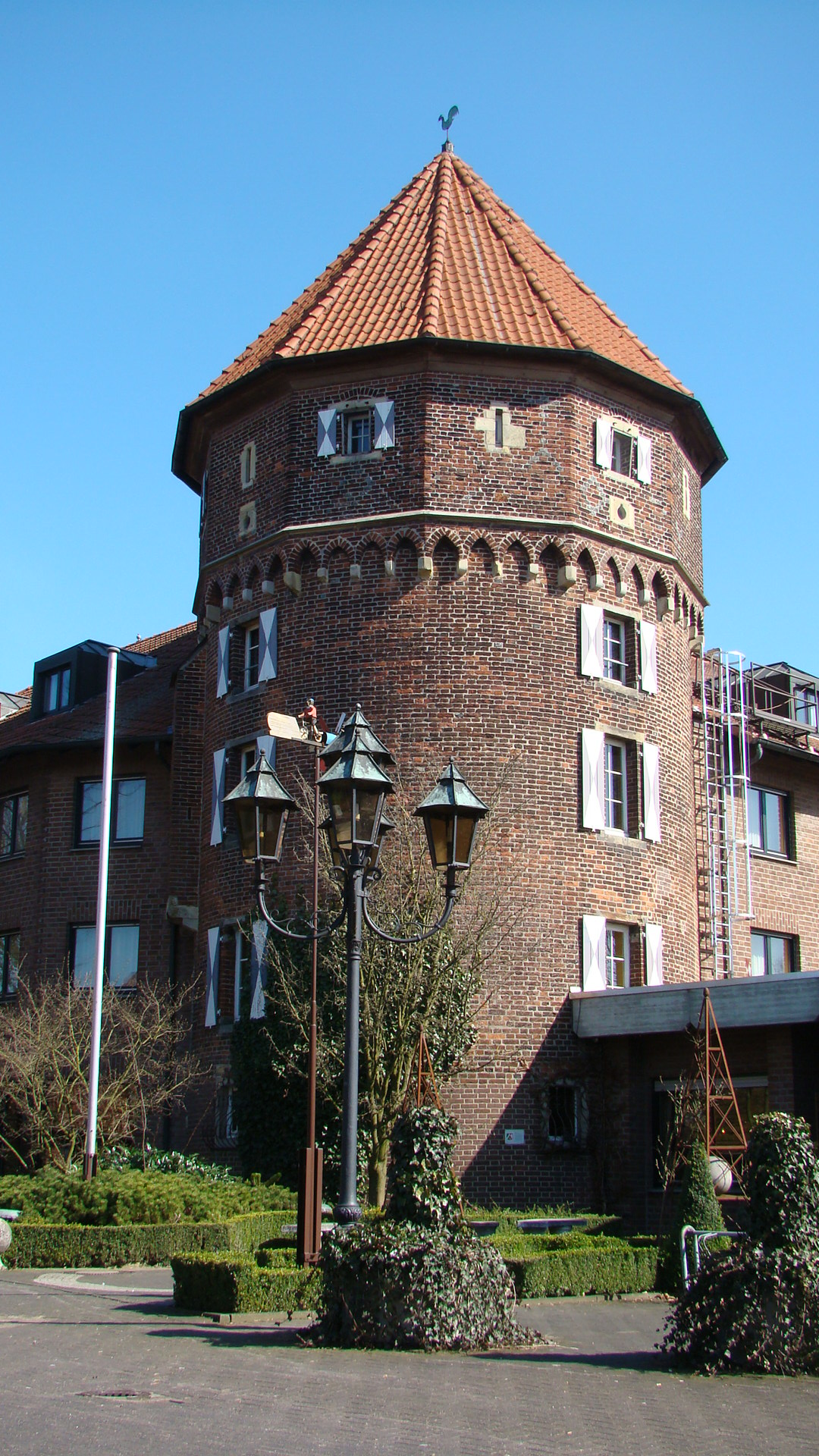 castletower Oeding Germany